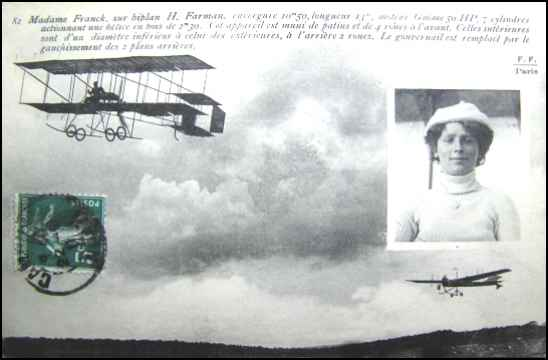 Mrs Franck, on an H. Farman biplane. Wingspan 10meters 50 centimeters, length 13meters, Gnôme 50 HP engine, with 7 cylinders turning a wooden propeller of 2 meters 30 centimeters. This apparatus is provided with skids, 4 wheels in front, 2 wheels in back.